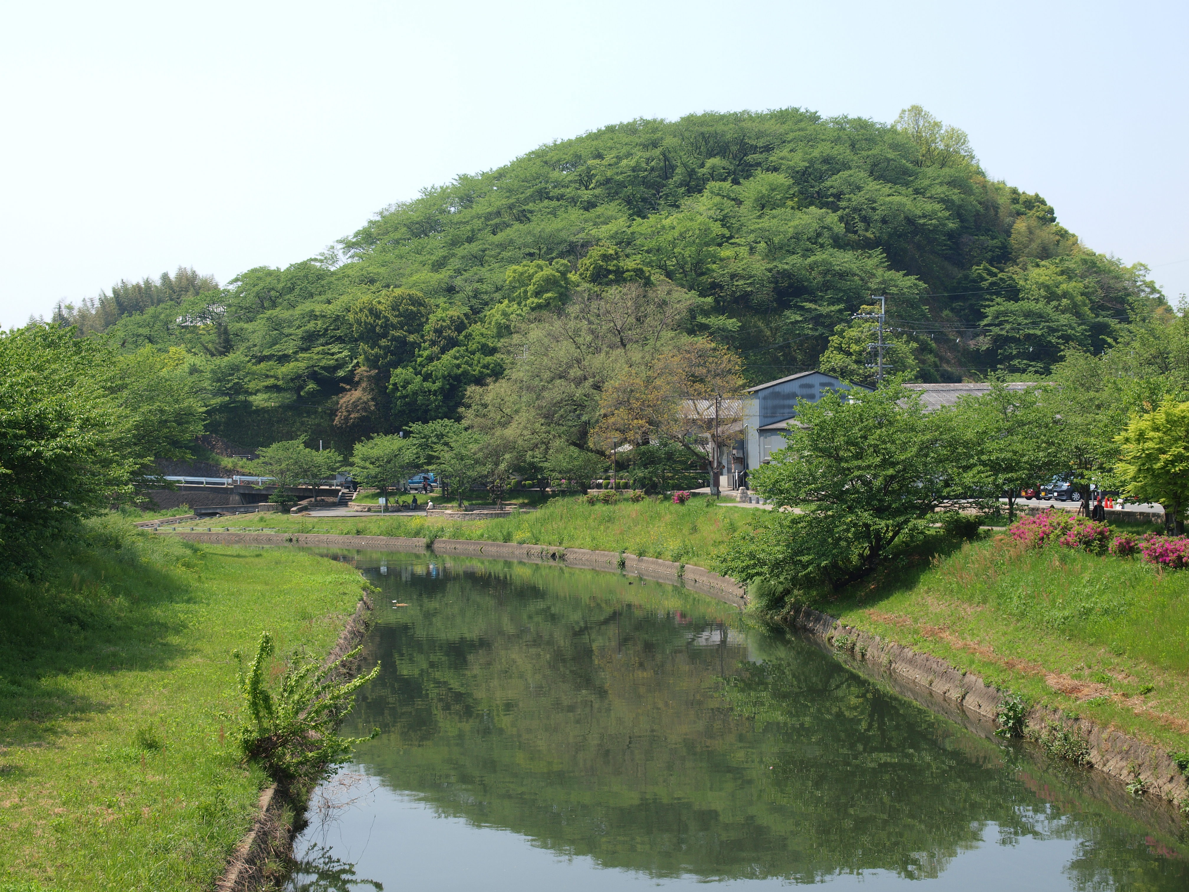 Mimuro Mountain and Tatsuta River in Ikaruga, Nara